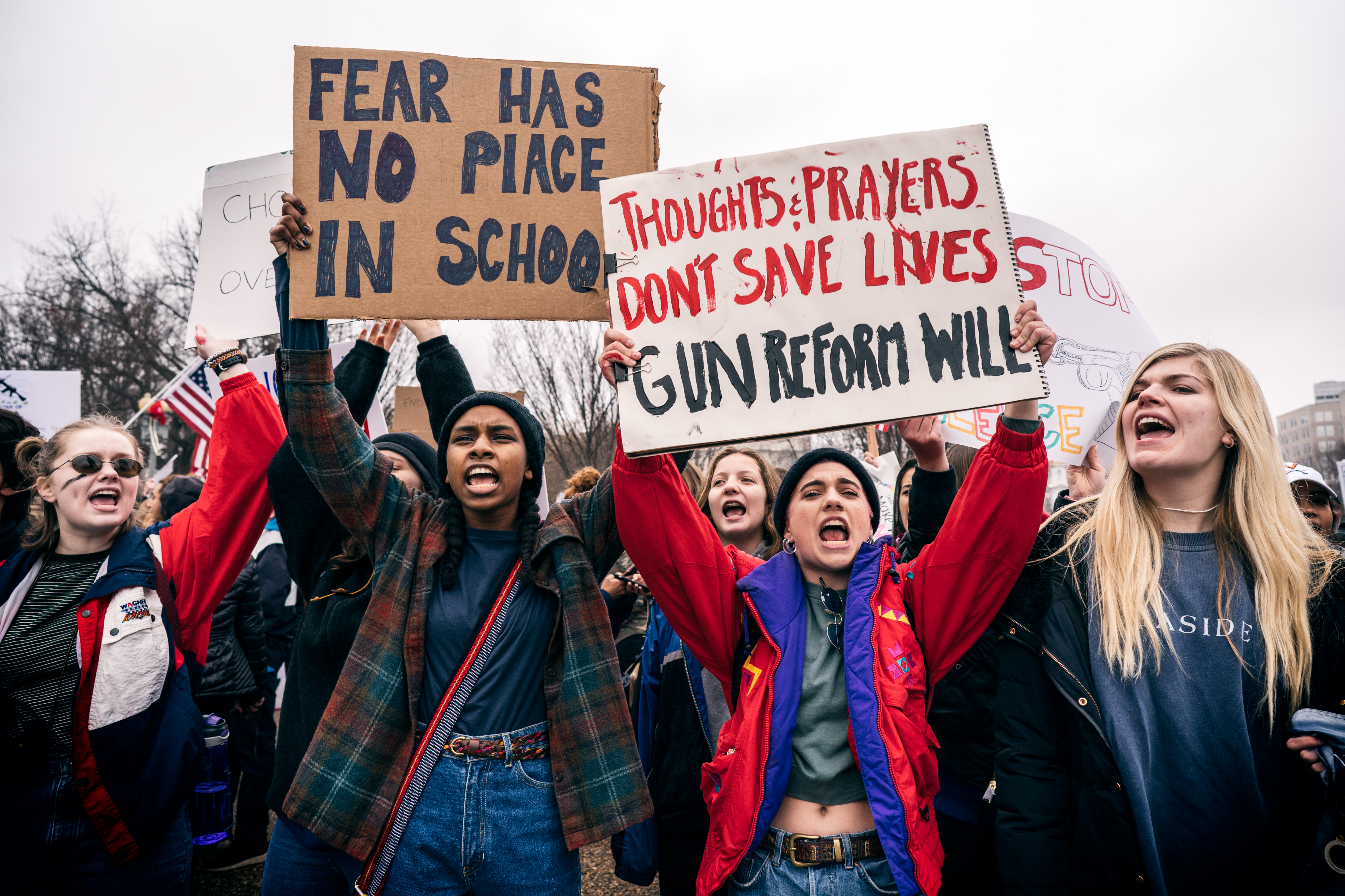 The demonstration was organized by Teens For Gun Reform, an organization created by students in the Washington DC area, in the wake ofthe February 14 shooting at Marjory Stoneman Douglas High School in Parkland, Florida.